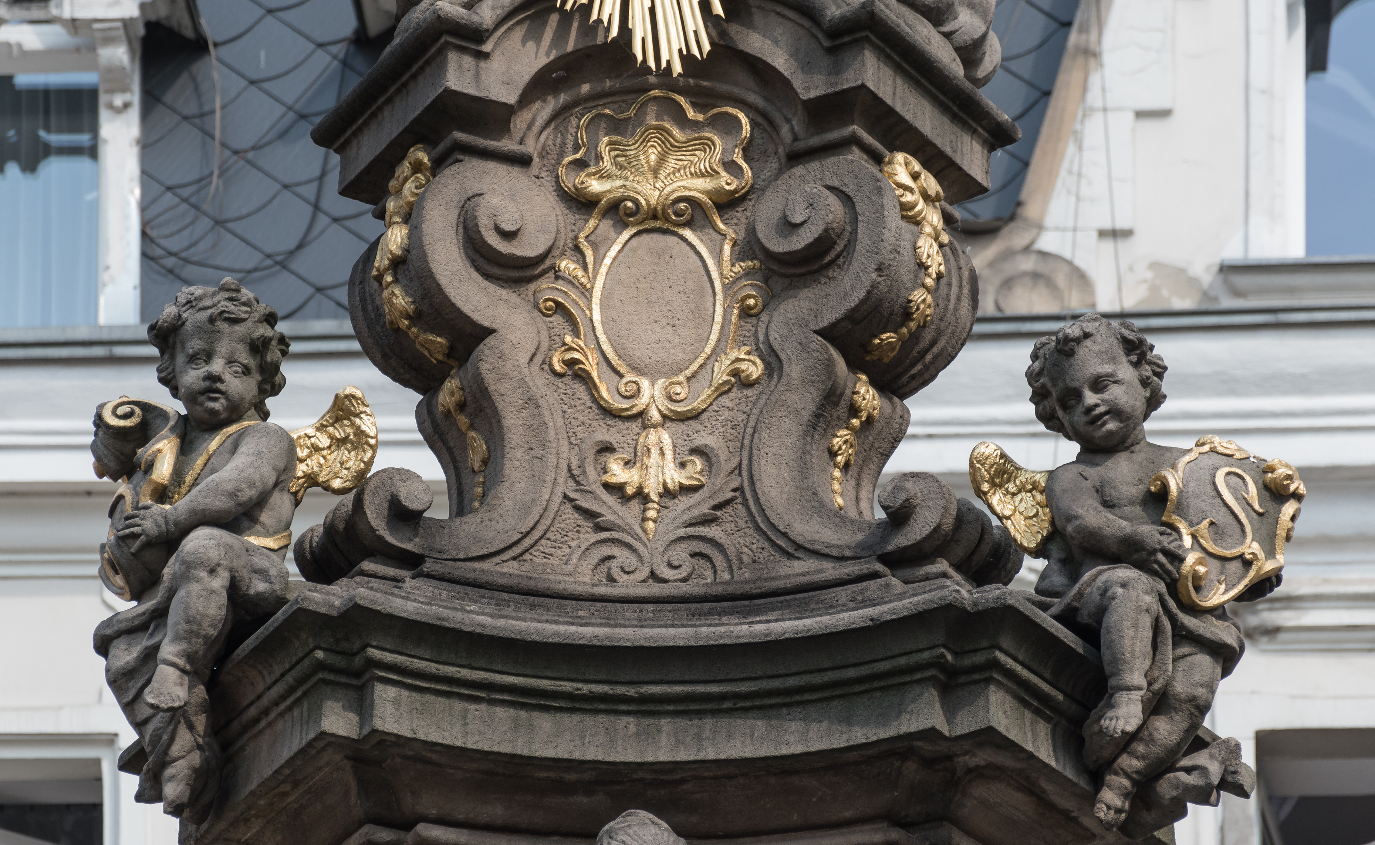 Trinity Column in Bystrzyca Kłodzka